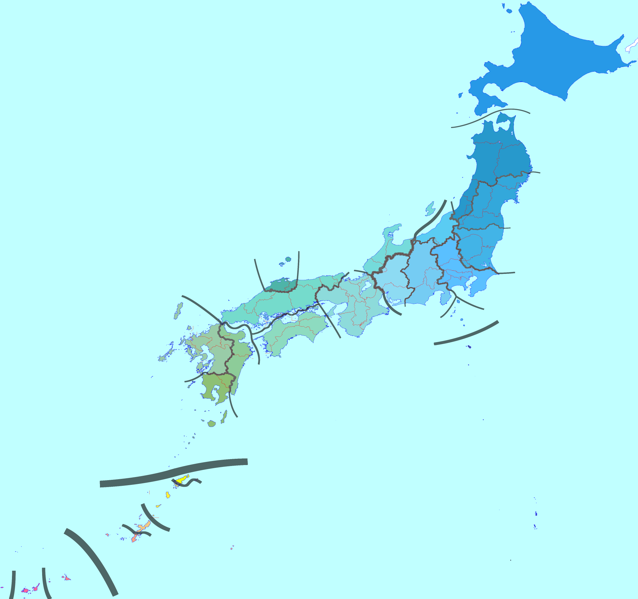 Map of Japanese dialects divisions (without description)